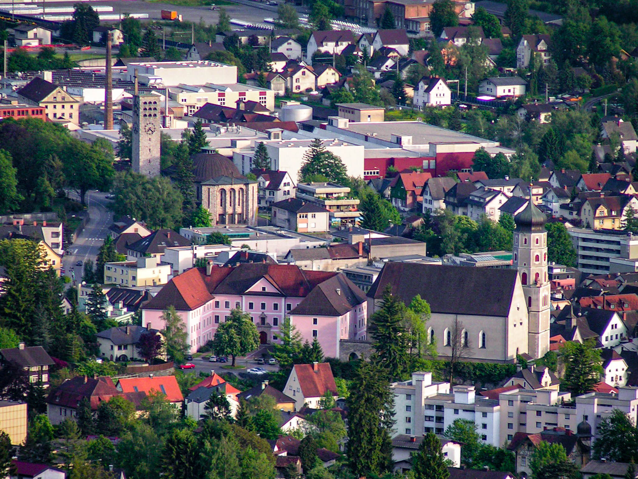 View of Bludenz in Austria with Church "Laurentius-Kirche" (right side); "Schloss Gayenhofen" (middle, pink building), and Church "Heilig Kreuz Kirche" (left background)